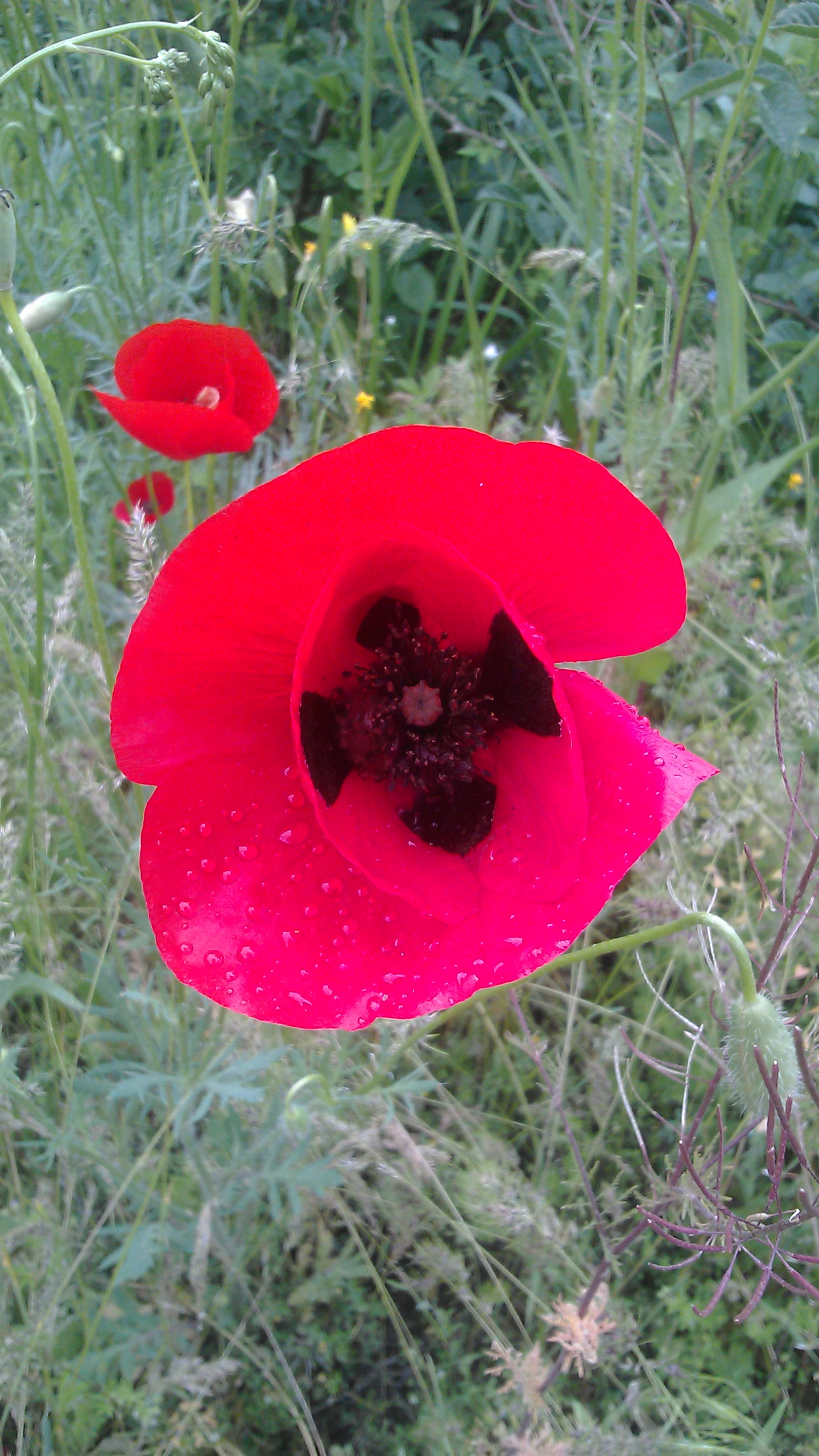 Khosrov forest state reserve